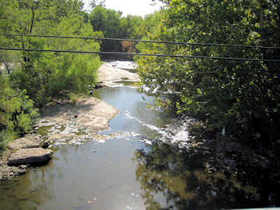 A section of Indian Creek (Blue River) near Overland Park, Kansas.